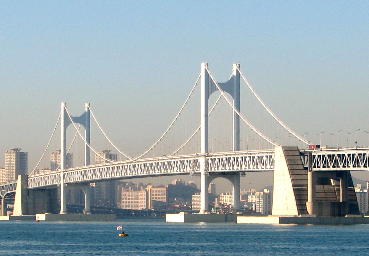 The Gwangan Bridge (広安大橋), Busan, South Korea